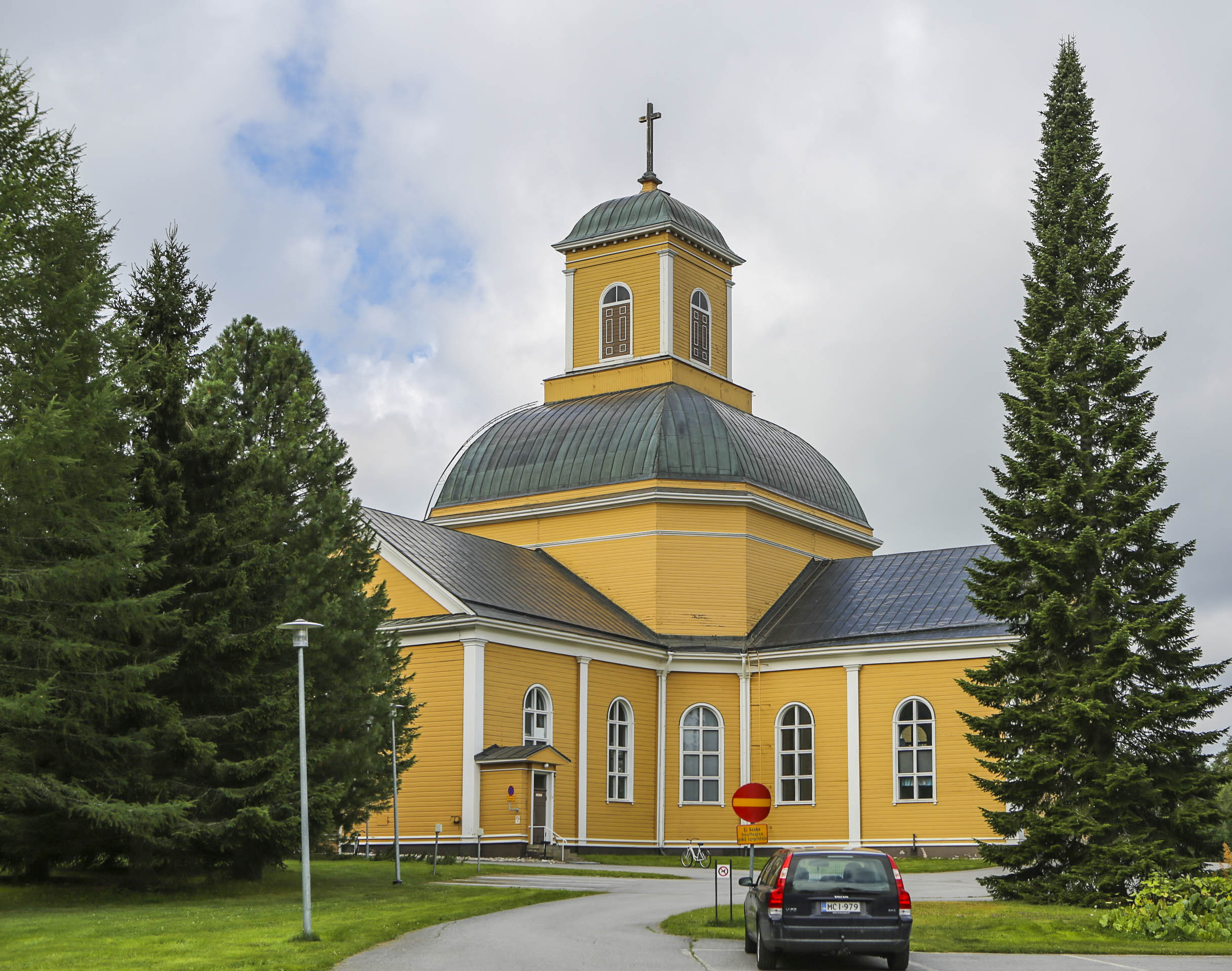 Kuhmo Church in Finland